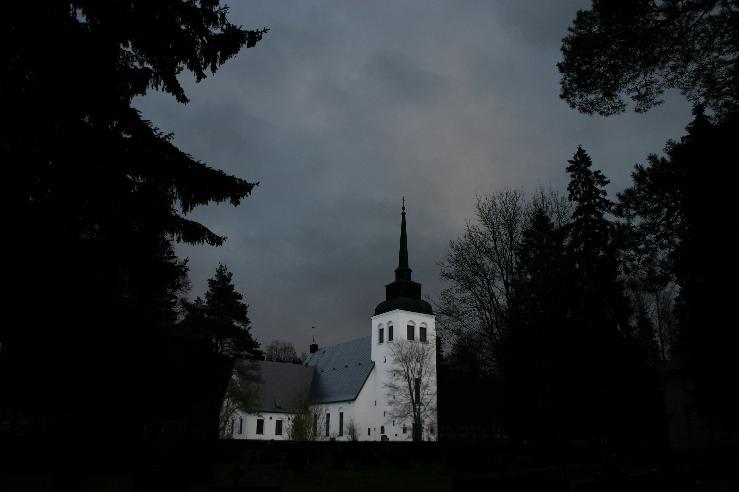 Valkeala Church in Kouvola, Finland.